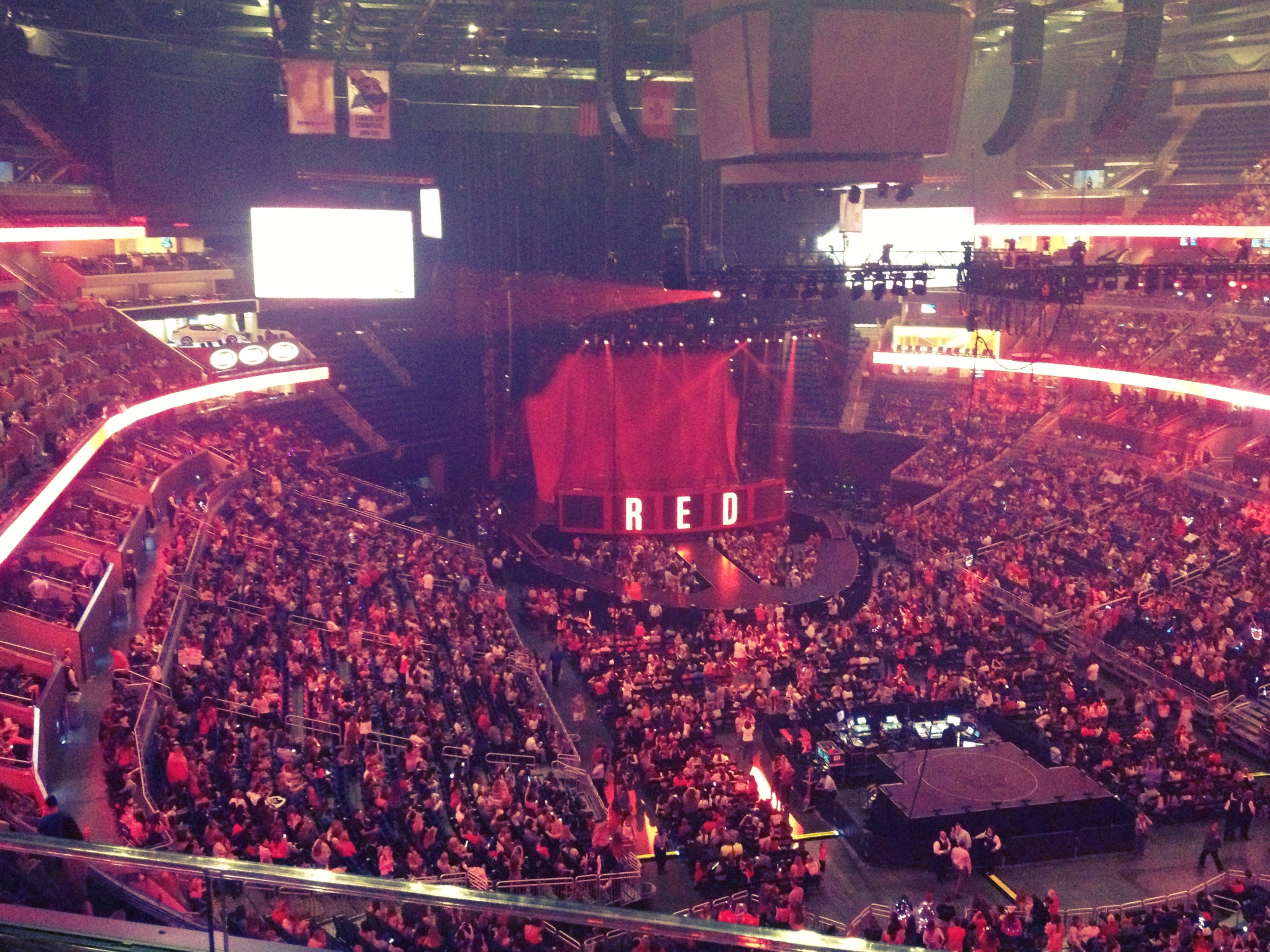 Red Tour's stage